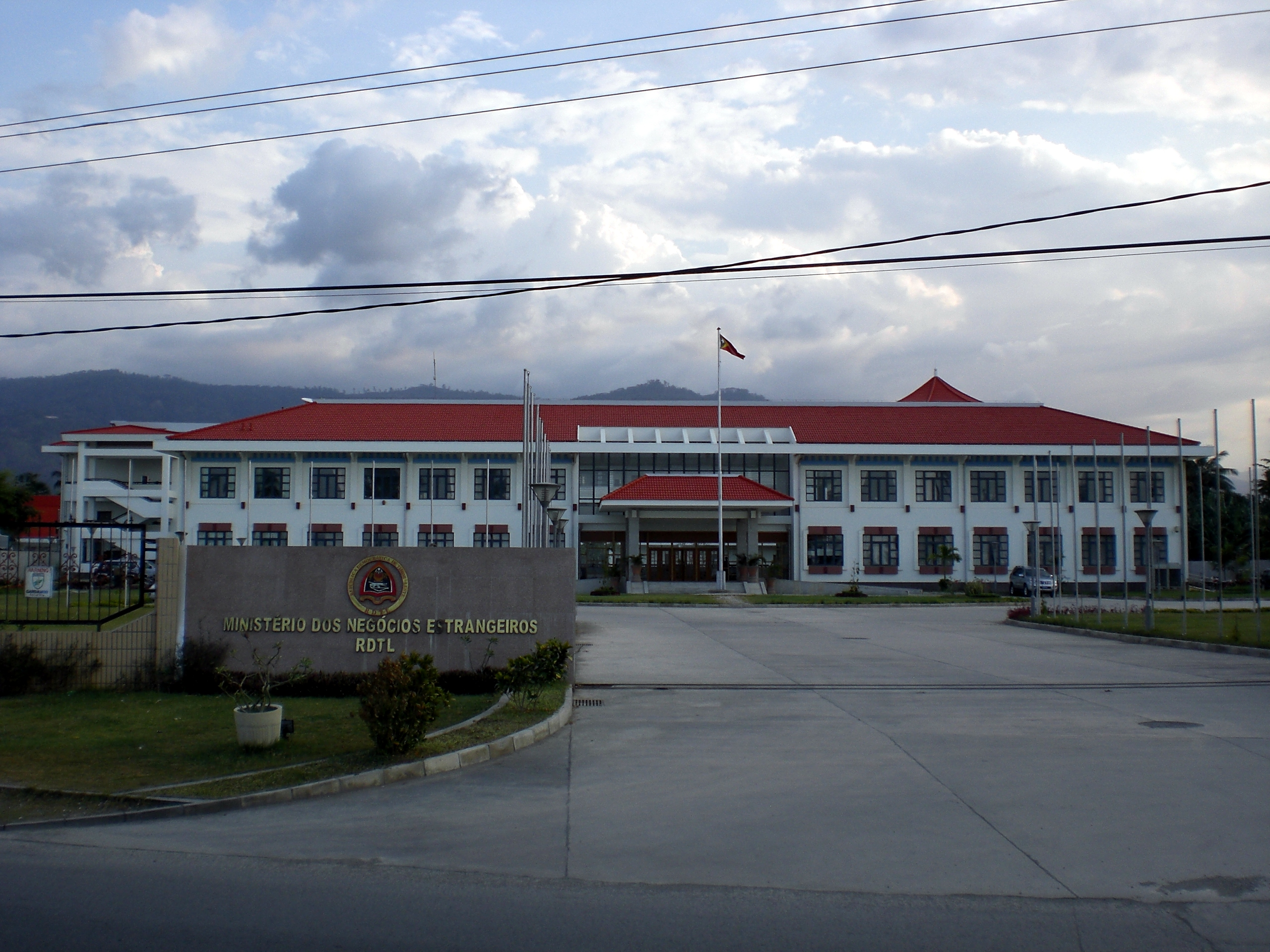 Ministério dos Negócios Estrangeiros building in Dili/Timor-Leste